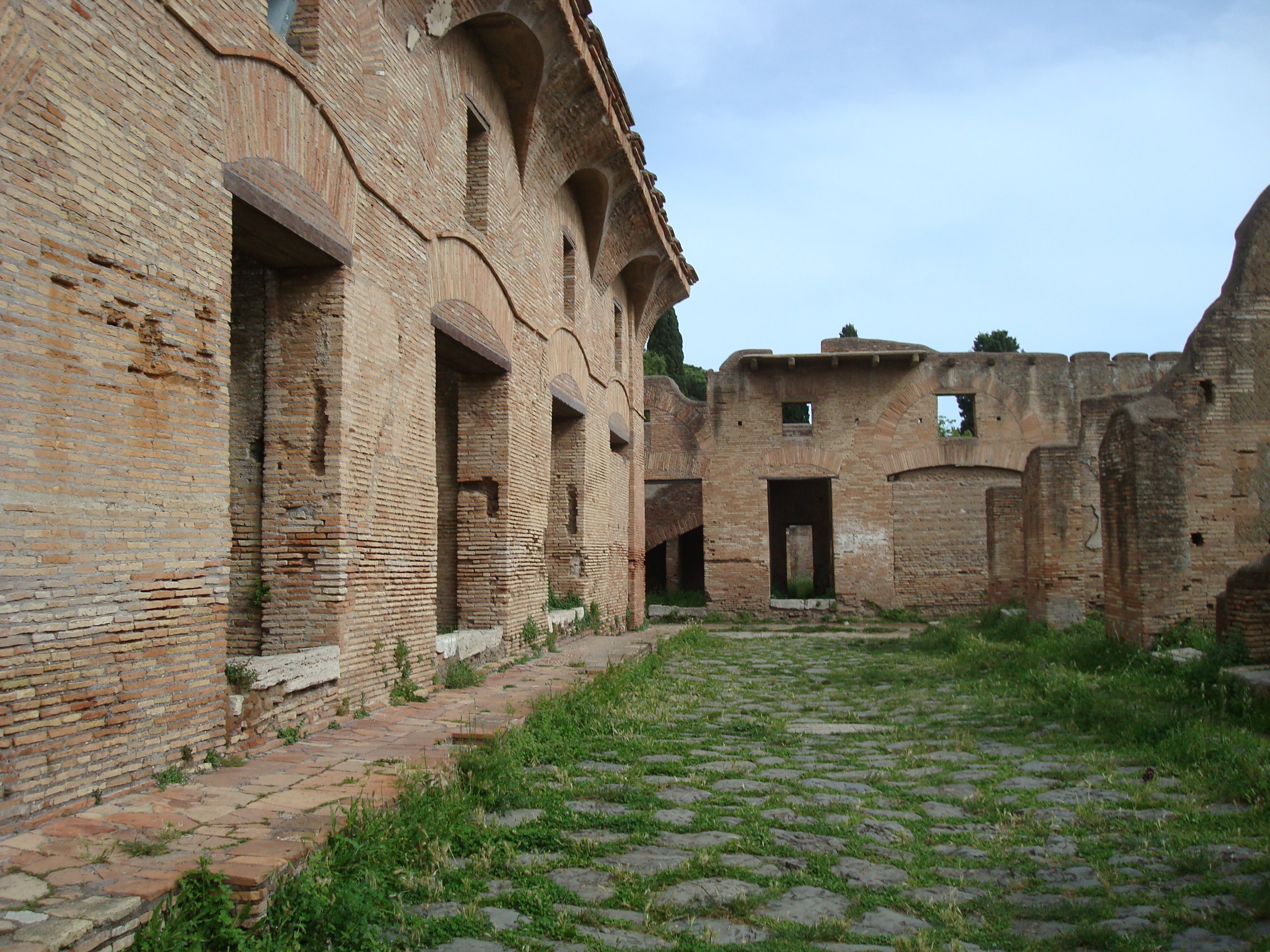 Roman insulae in Ostia Antica